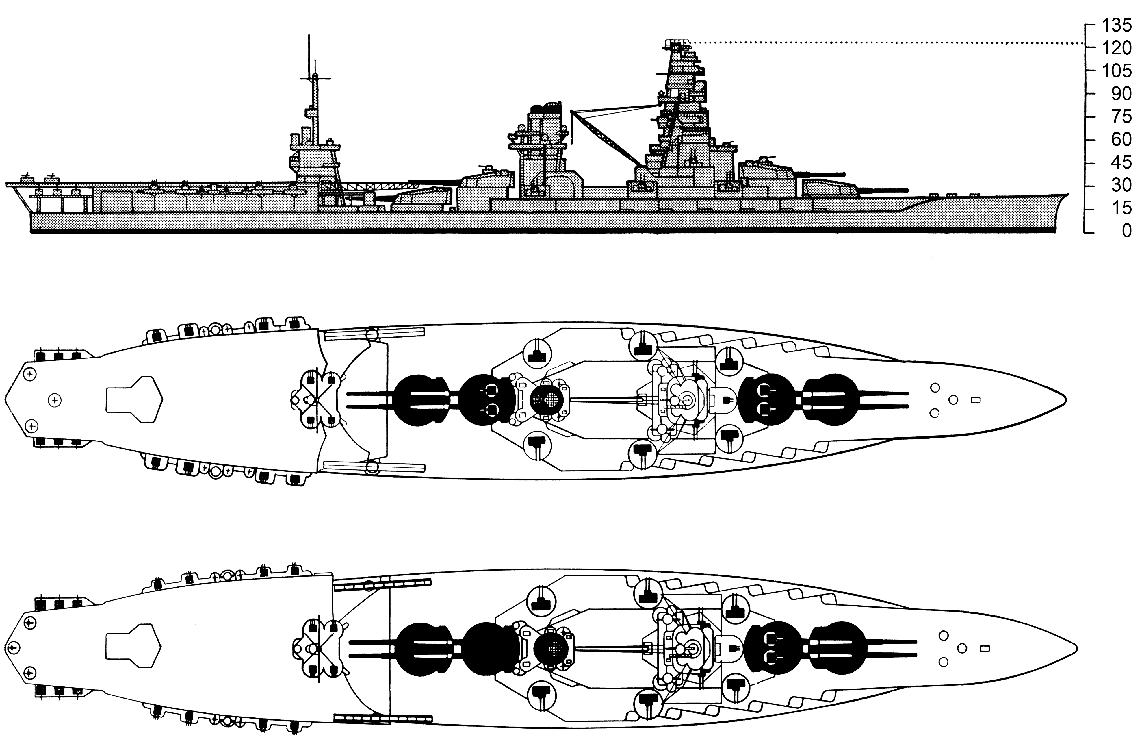 A drawing of the Ise class battleship. Scale shows height in feet. The two variations show reported changes in the position of the catapults.